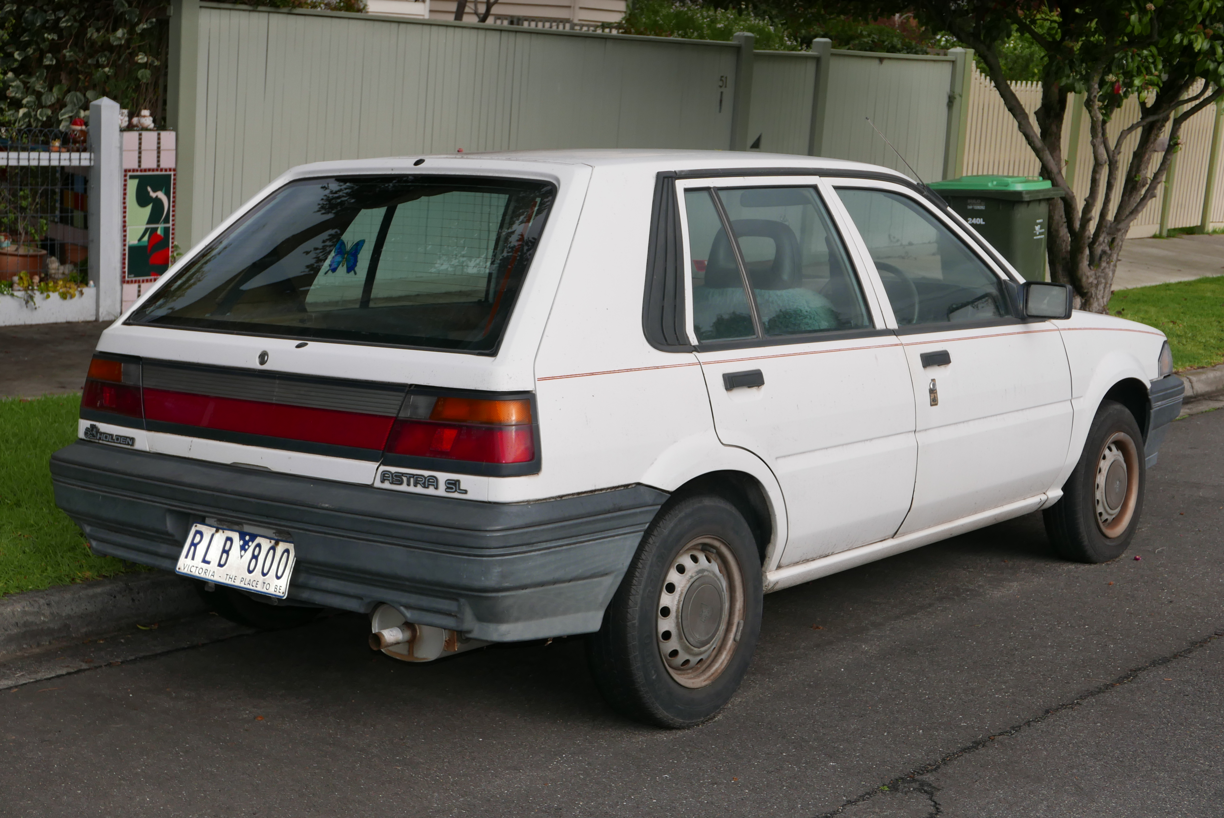 1988 Holden Astra (LD) SL hatchback. Photographed in Thornbury, Victoria, Australia. Vehicle registration enquiry results Jurisdiction Victoria Registration RLB800 Chassis code Not available Engine code 16LF25006865 Compliance date Not available Year of manufacture 1988